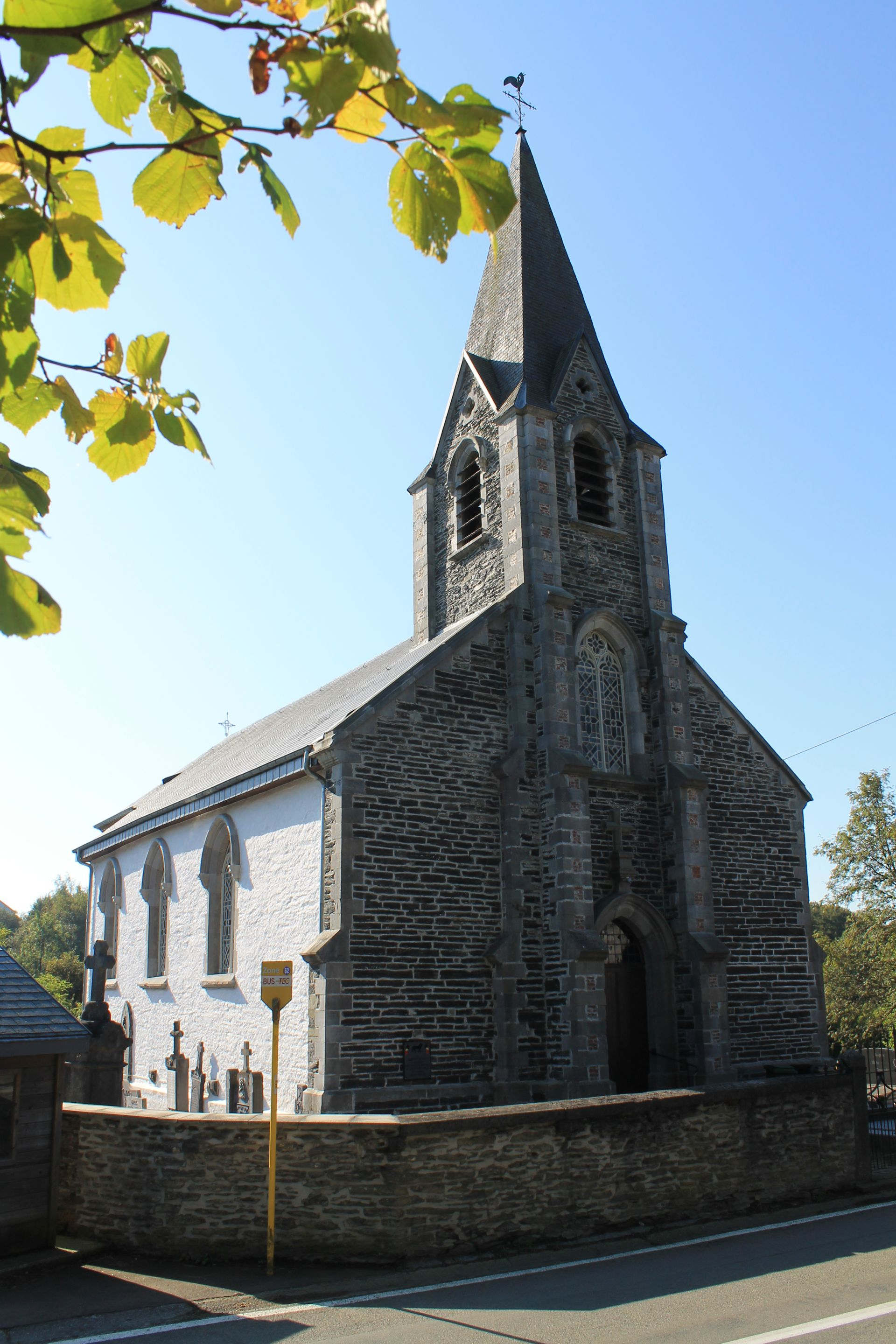 Cetturu Church